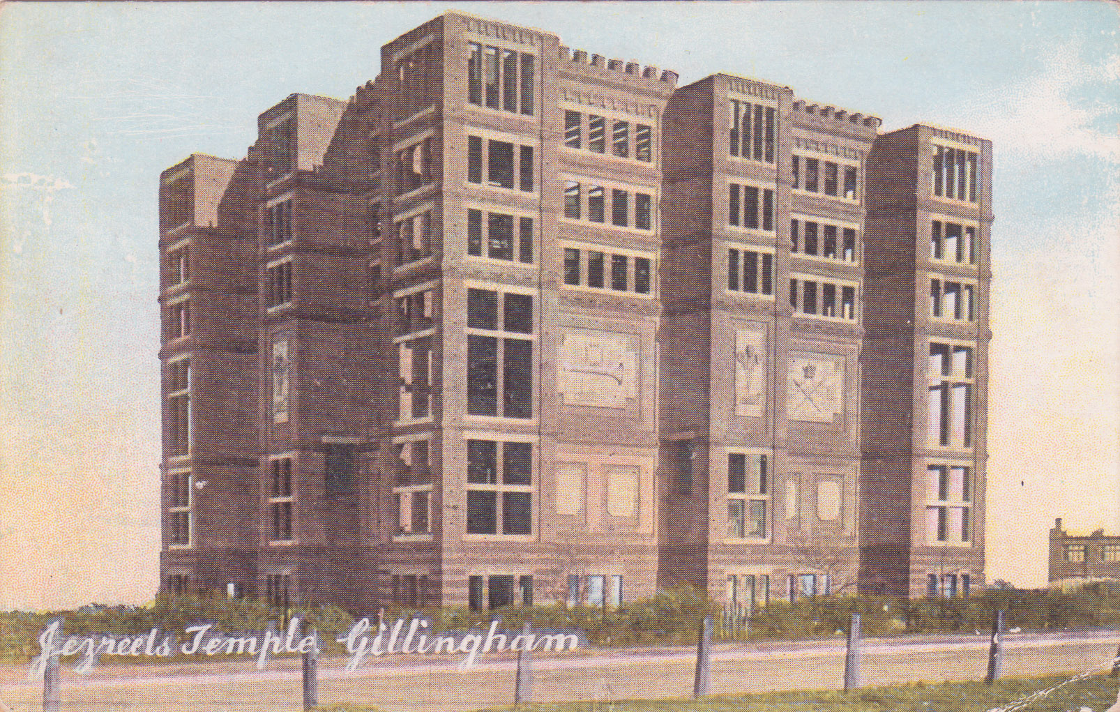 Jezreels tower, formerly of Gillingham, Kent, UK